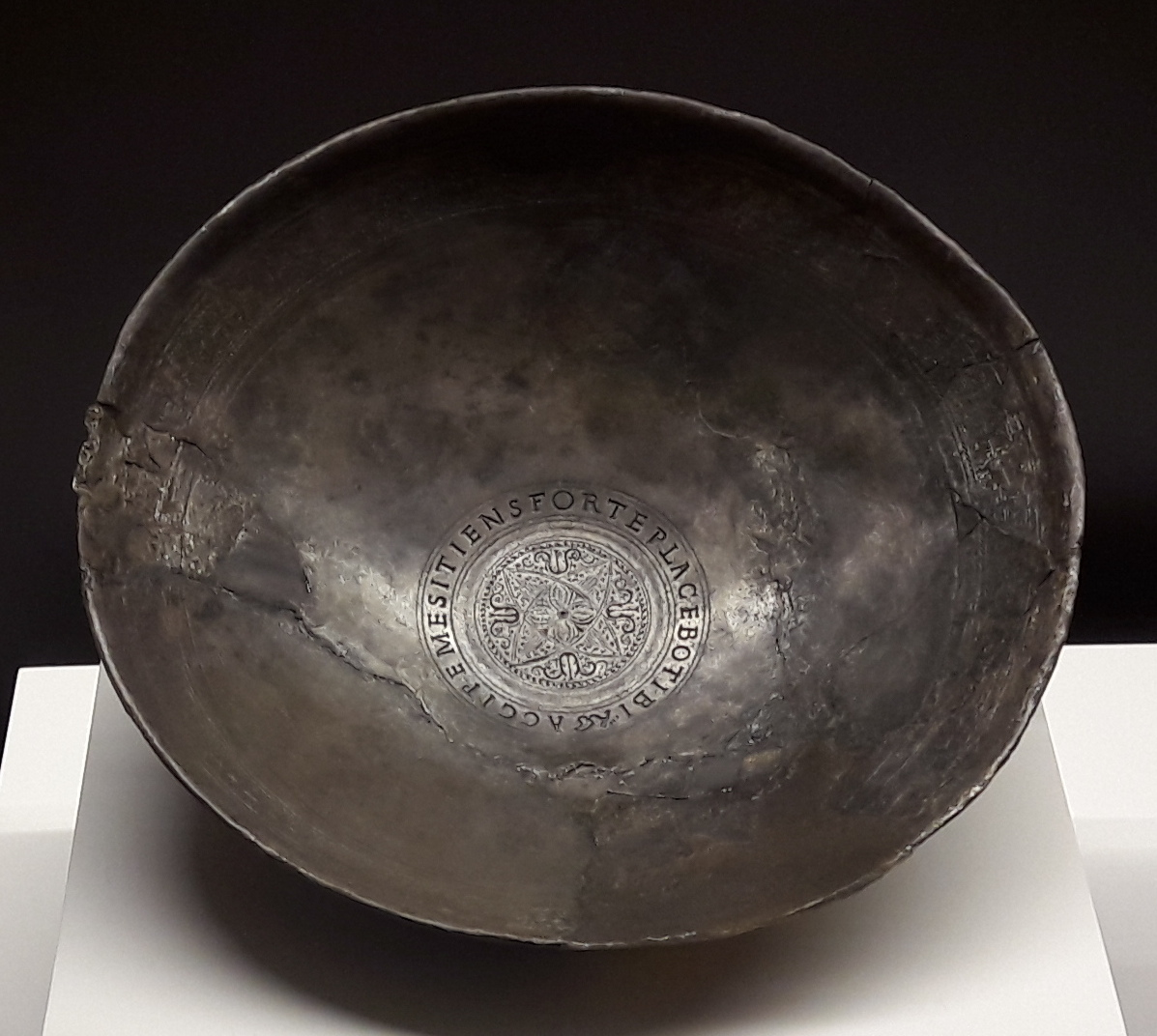 Patera. Silver with niello detailing. 4th century. Ancient Roman theatre, Málaga. Museo de Málaga, España